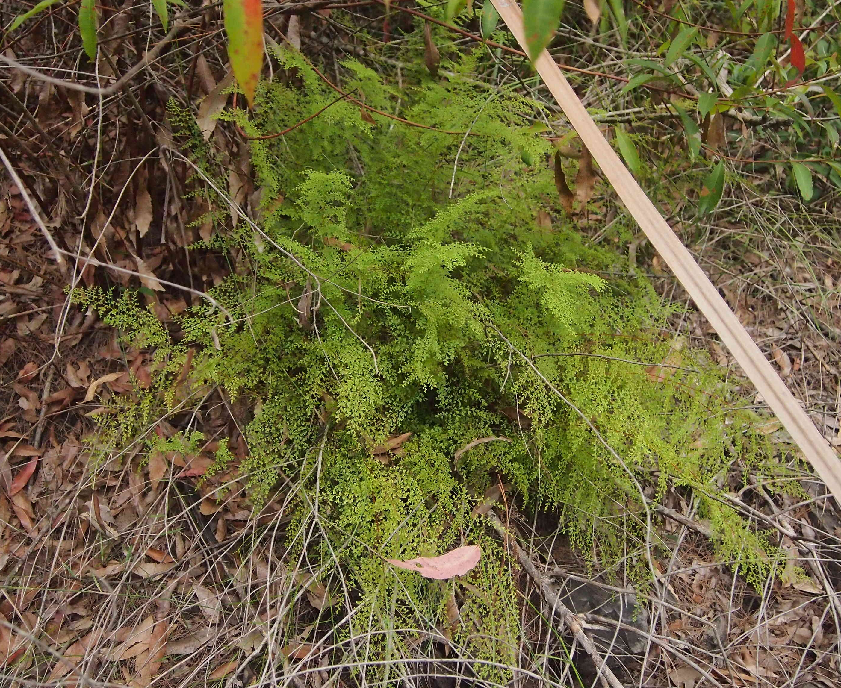 Lindsaea microphylla habit